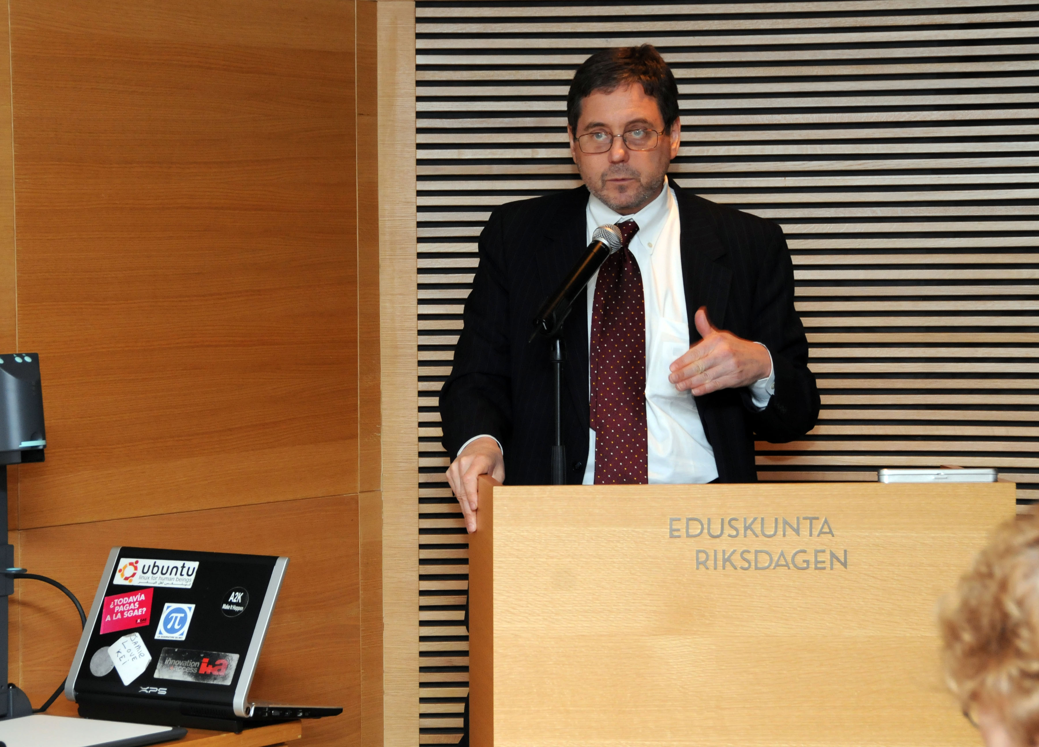 James Love giving his presentation on WIPO, ACTA and blind people's right to read in Kenen immateriaalioikeus event in Pikkuparlamentti, Finland